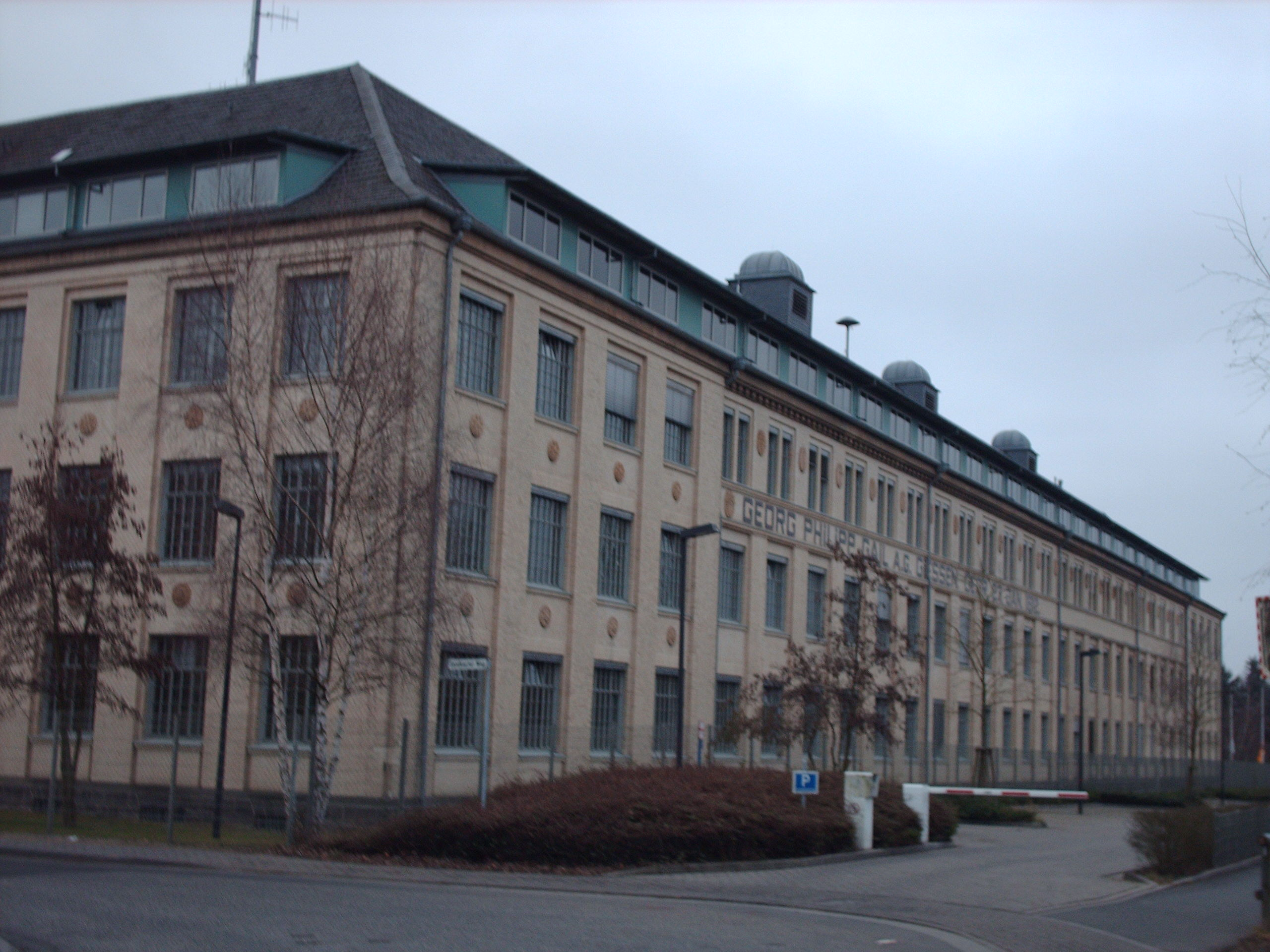 Police headquaters Mittelhessen (former Gail cigar manufactory), Gießen, Germany